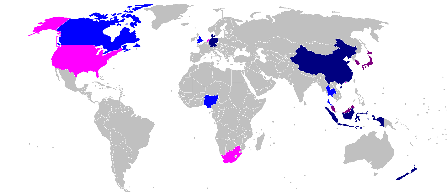 2008 Thomas & Uber Cup participating countries